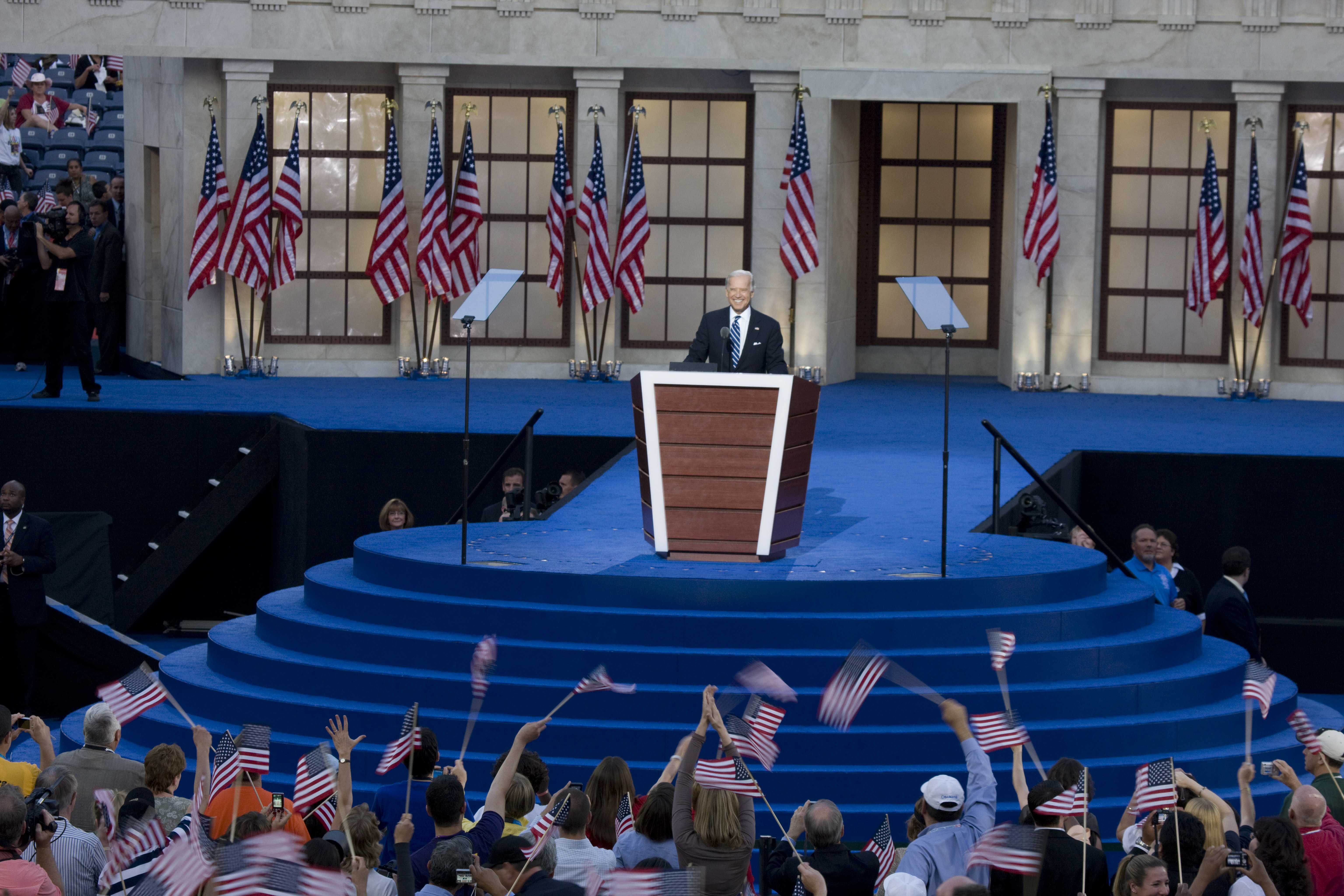 Joe Biden speaks at the 2008 DNC